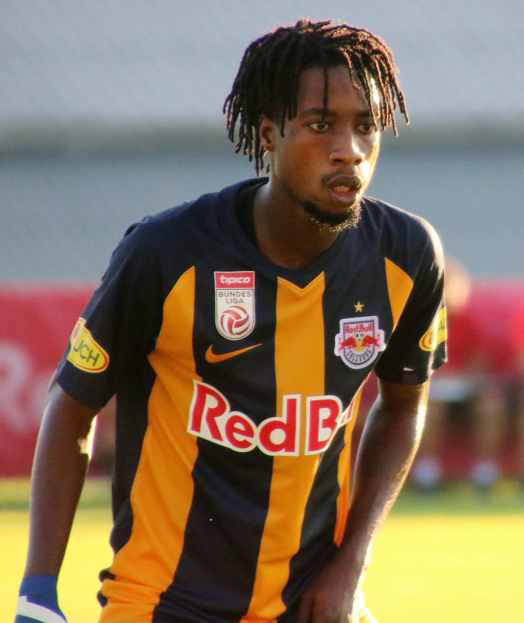 FC RB Salzburg gegen Kayseri Spor Kulübü (Testspiel, 23. Juli 2019)